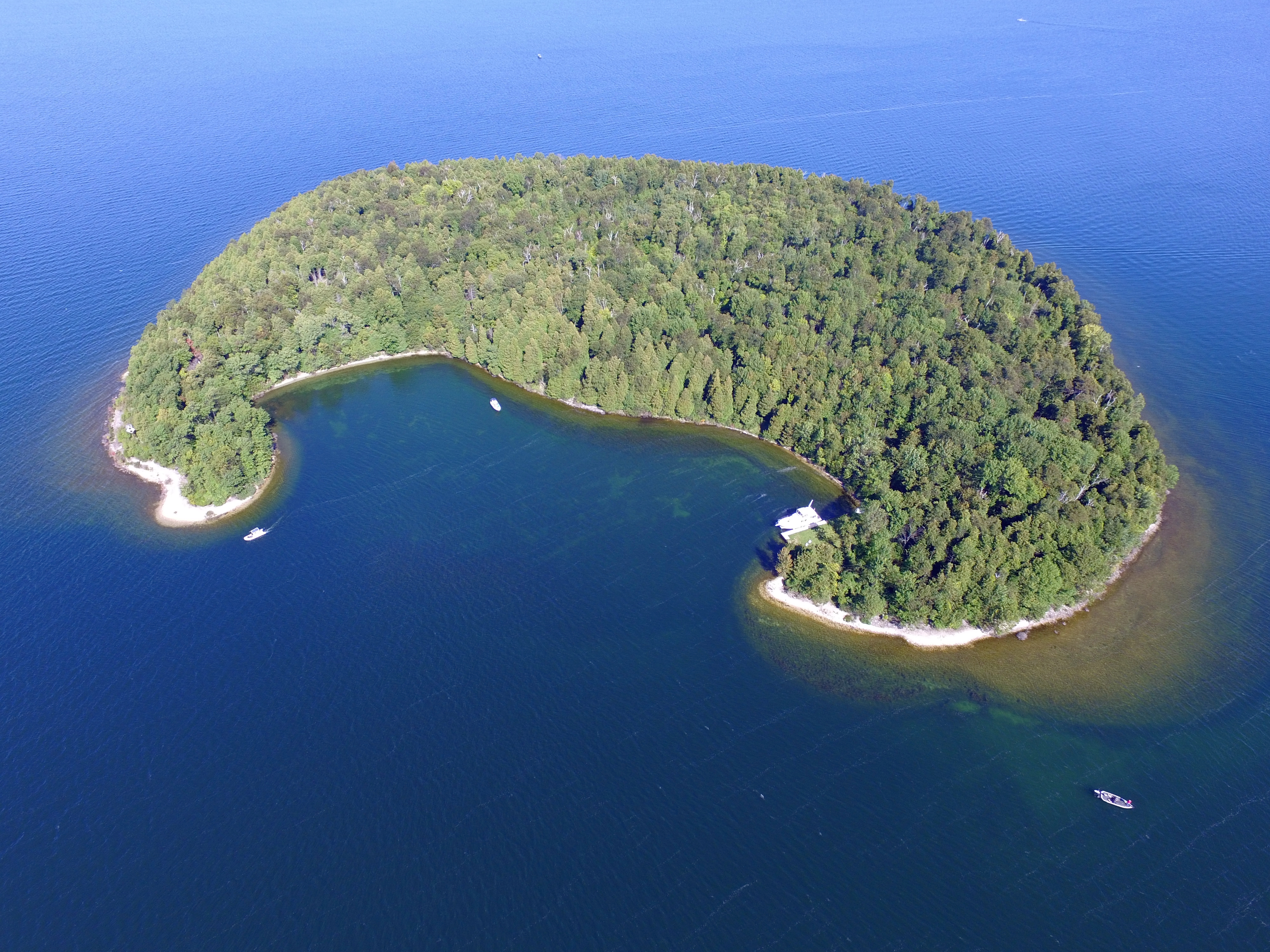 An aerial photo of Horseshoe Island in Door County, WI